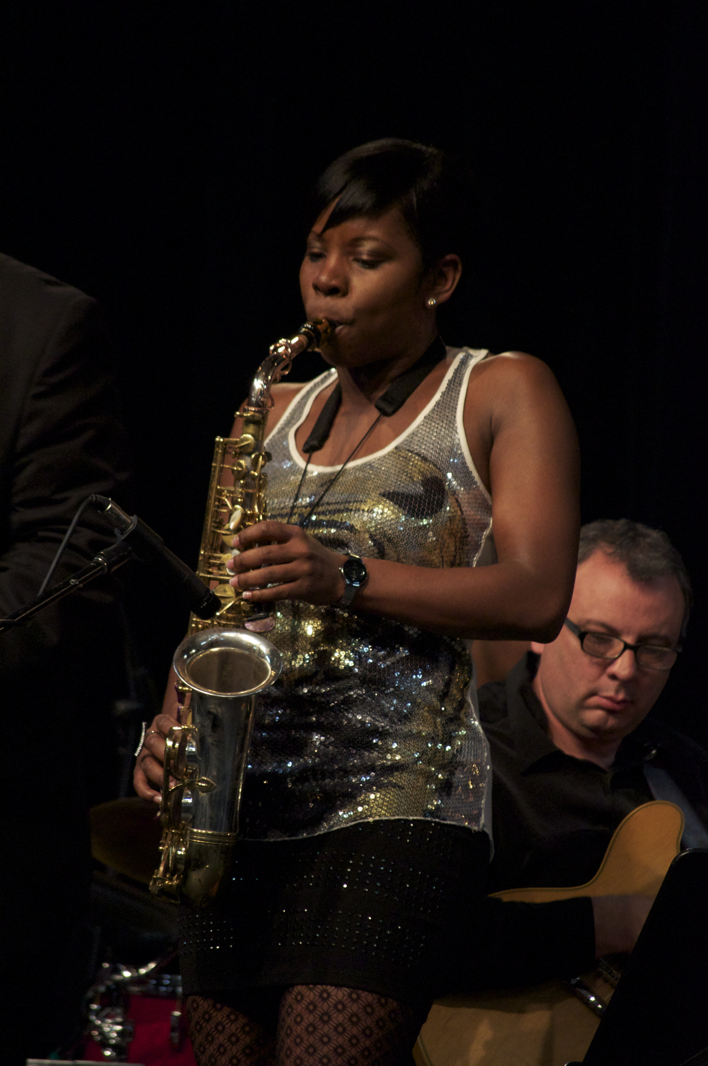 Tia Fuller Live